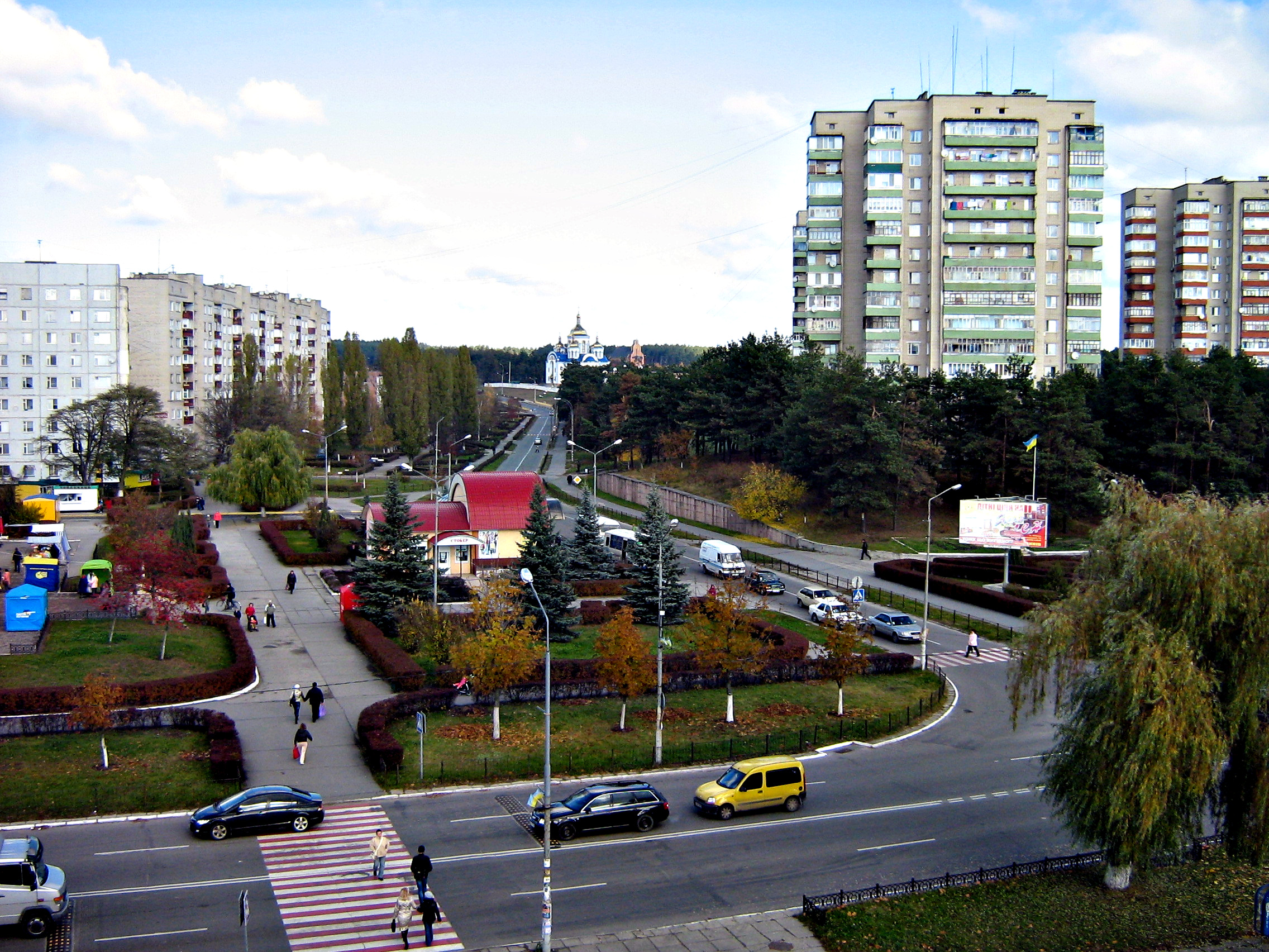 Netishyn is located on the Goryn river. Khmelnytskyi Oblast.